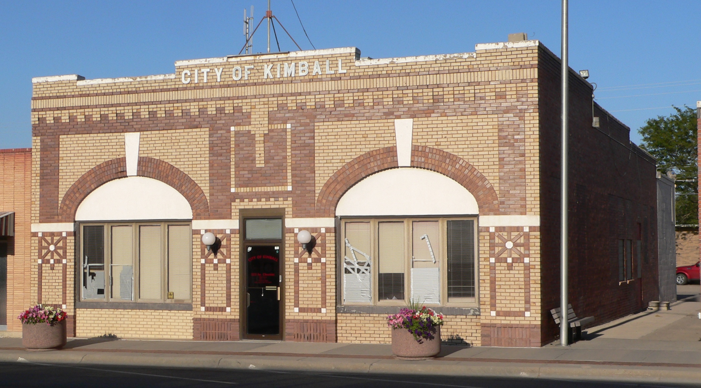 Kimball, Nebraska city hall at 223 S. Chestnut Street; seen from the southwest.